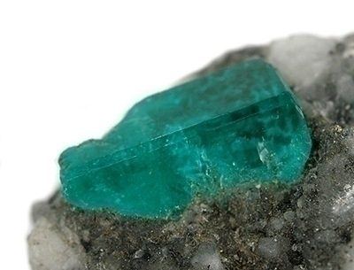 Beryl (Var.: Emerald) Locality: Muzo Mine, Muzo, Vasquez-Yacopí Mining District, Boyacá Department, Colombia (Locality at ) Size: 5.0 x 3.8 x 2.5 cm. A very gemmy 15 x 8 x 8 mm emerald perched nicely in matrix. You can see even in the photos how gemmy and clean the crystal is. In person, it is even brighter, more gemmy, and more beautiful.